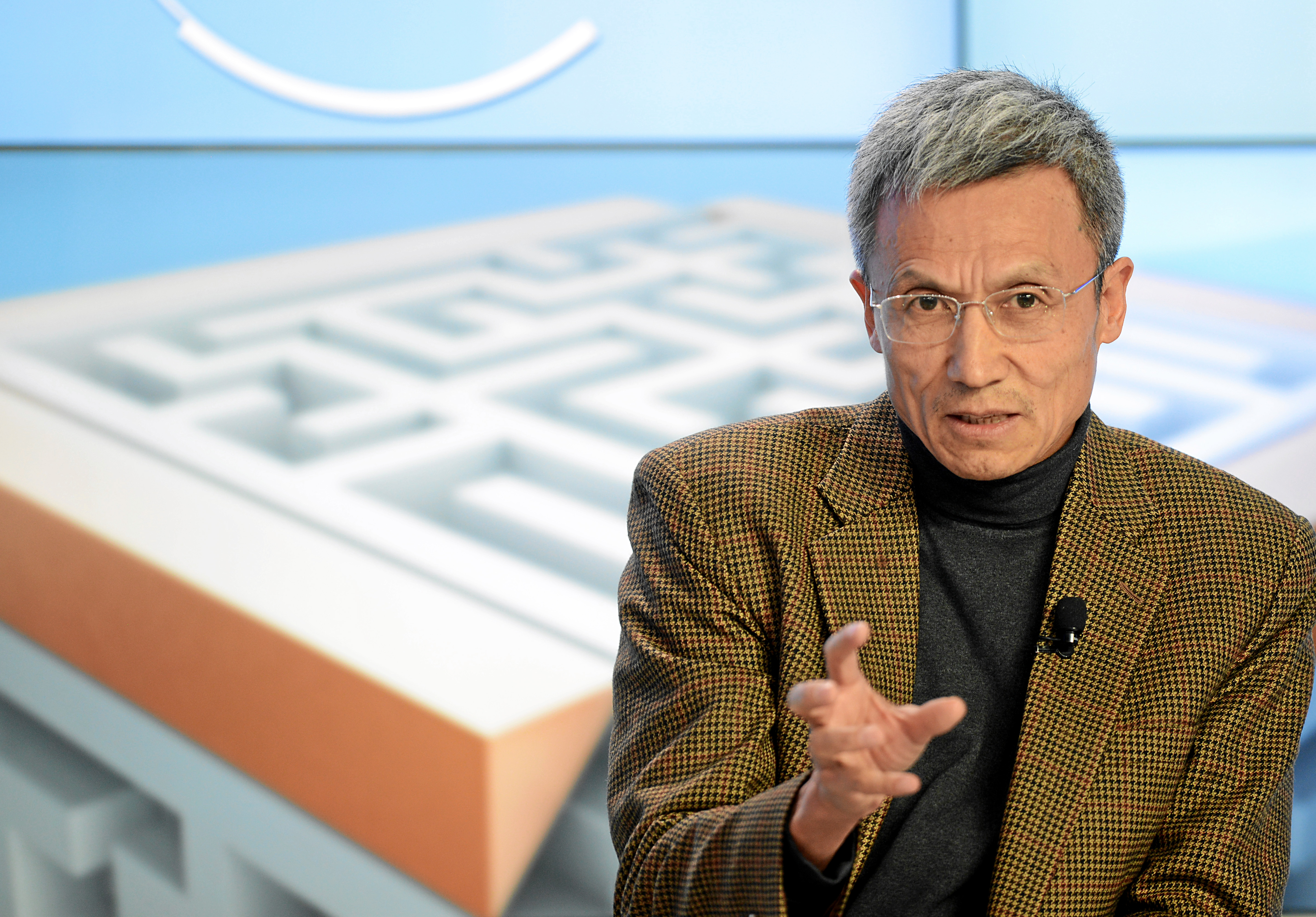 DAVOS/SWITZERLAND, 23JAN13 - Xu Xiaonian, Professor of Economics and Finance, China Europe International Business School (CEIBS), People's Republic of China; Global Agenda Council on New Economic Thinking gestures during the televised session 'Caixin - China 2020: Vision Meets Reality - Building Resilient Institutions' at the Annual Meeting 2013 of the World Economic Forum in Davos, Switzerland, January 23, 2013.